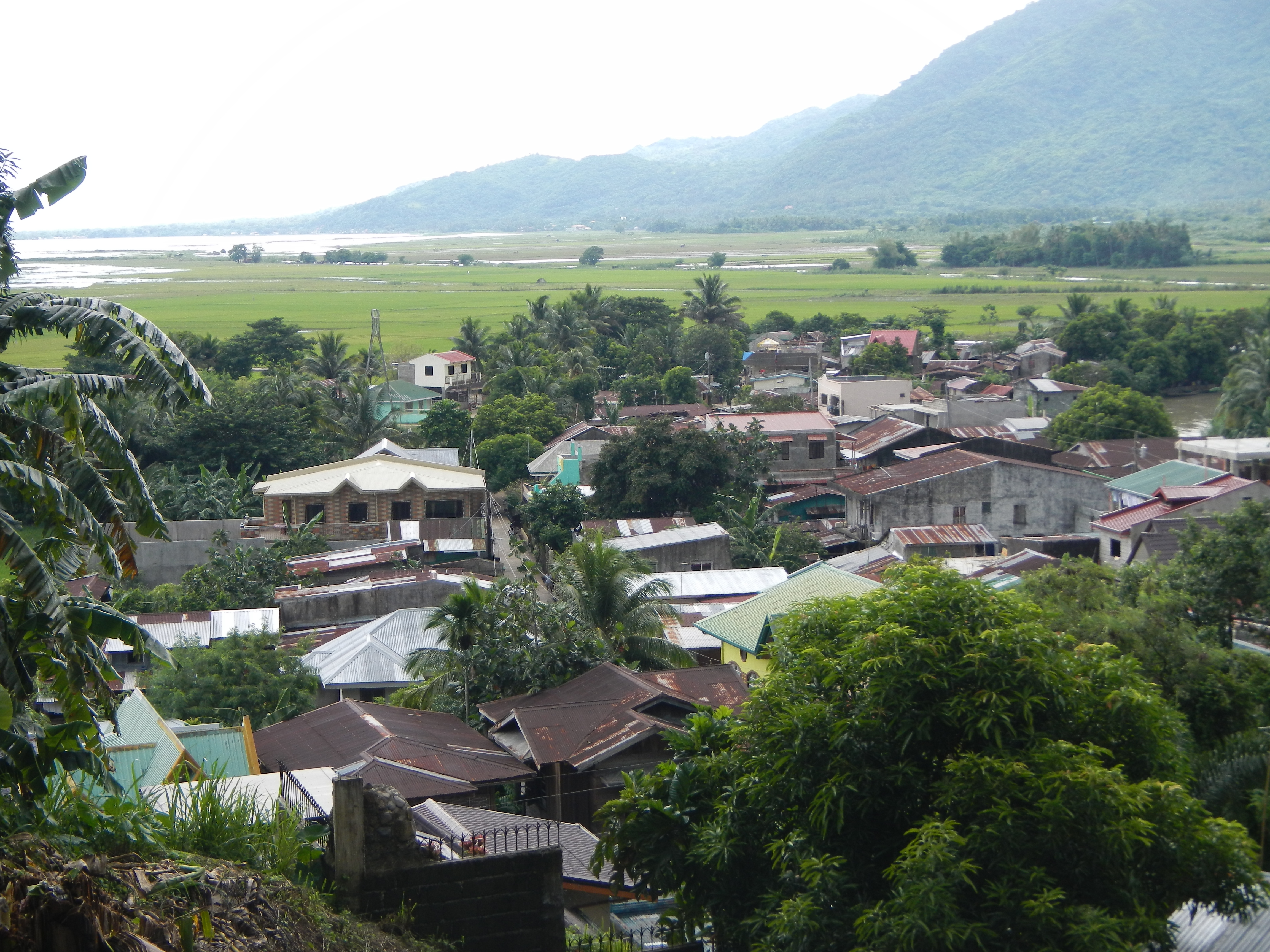 UploadWizard -- (general description - a 3 dimensional photography, angles by angles of the Town hall, plaza, landmarks, heritage Church) of Mabitac, Laguna[1] - the scenery, greens, blue mountains ranges, hills, buildings, and heritage of surrounding the - Nuestra Señora de Candelaria Parish Church of Mabitac - Mabitac, Laguna[2] - [3] belongs to the [4] Roman Catholic Diocese of San Pablo - Vicariate of Saints Peter and Paul Episcopal District IV[5] 1611 - The church was built July 18,1880 - seriously damaged by an Earthquake August 20,1937 - again damaged by an Earthquake is located on top of Kalbaryo Hill, Brgy. Maligaya, Mabitac Laguna.[6] can be reached by a 129 steps from the main road with a well whose water with curative powers; Cristobal de Mercado gave the image of the Nuestra Senora de Cadelaria to Paco in 1600 removed from Siniloan in 1615[7] [8] [9] [10] Rev. Fr. Anthony S. Ricafort Mahal na Birhen ng Candelaria Parish Poblacion, Mabitac [11] Feast day: February 2 Parish Priest: Father Gerardo R. Basa [12] Our Lady Of Candelaria Church [13] [14] Mabitac, Laguna[15] - [16] 14° 25' 40.31" N 121° 25' 34.39" E